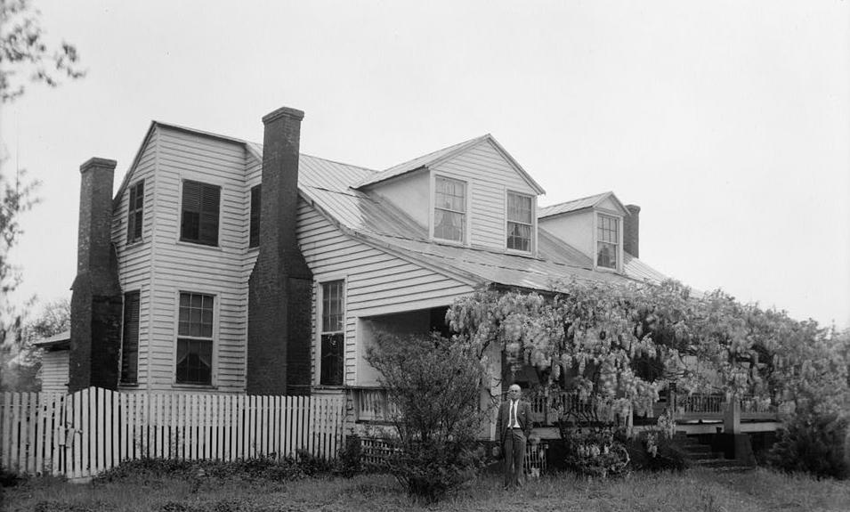 Dixon Hall Lewis House and gardens — on State Highway 97 (County Road 29), Lowndesboro, Lowndes County, central Alabama. Front and side view, NW corner. Large Chinese wisteria (Wisteria sinensis) vine on front trellis. Historic district contributing property to the Lowndesboro Historic District. Dixon Hall Lewis (1802—1848) constructed the house "Old Homestead" in the town of Lowndesboro, Alabama in 1823. He was an American politician and chairman of the United States House Committee on Indian Affairs. Image courtesy of Historic American Buildings Survey—HABS.